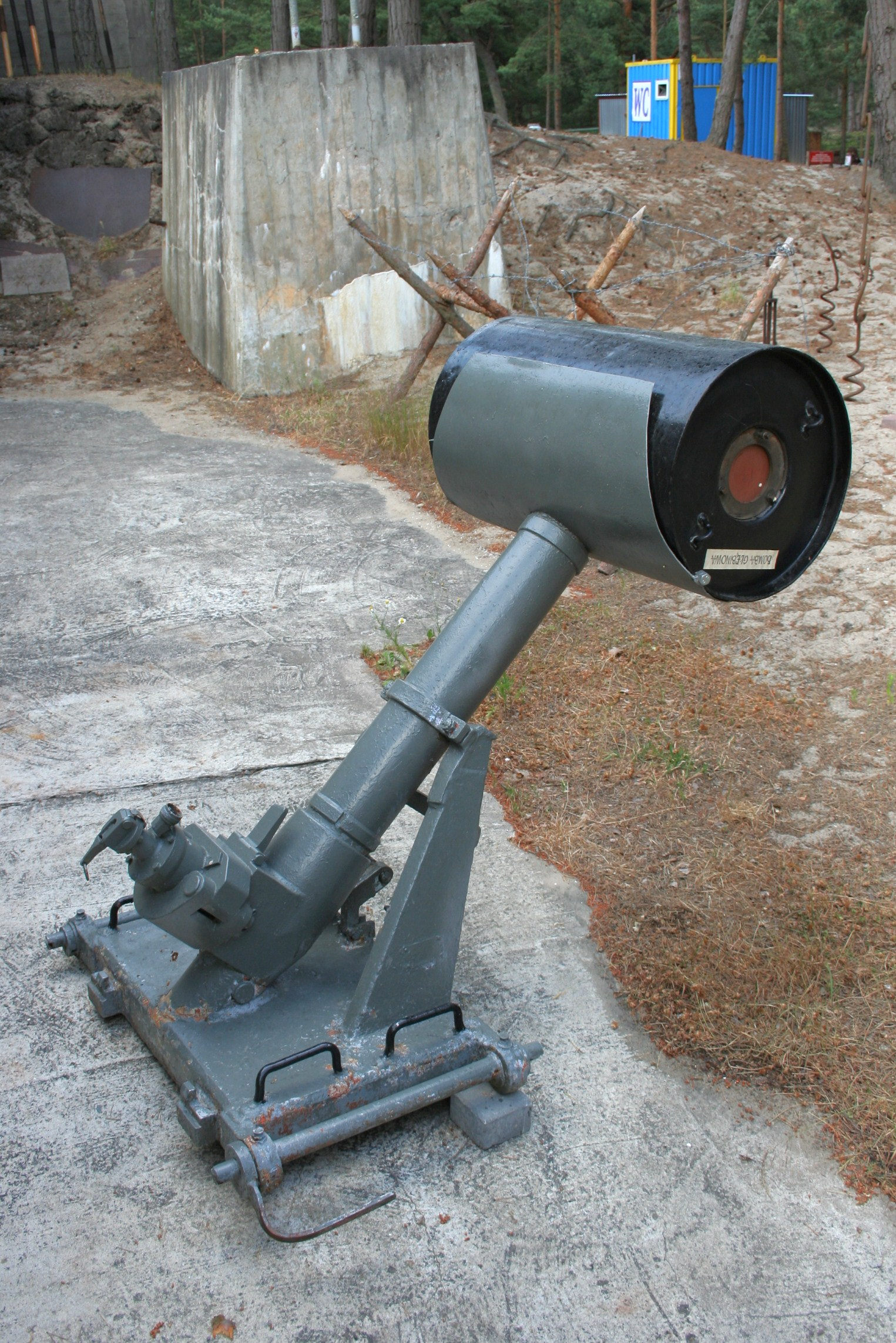 BMB-1 depth charge thrower - outside exhibition in Museum of Coastal Defence.